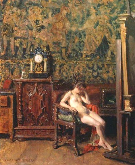 The Model (c.1920?, although it seems like most of his paintings were done "c.1920")